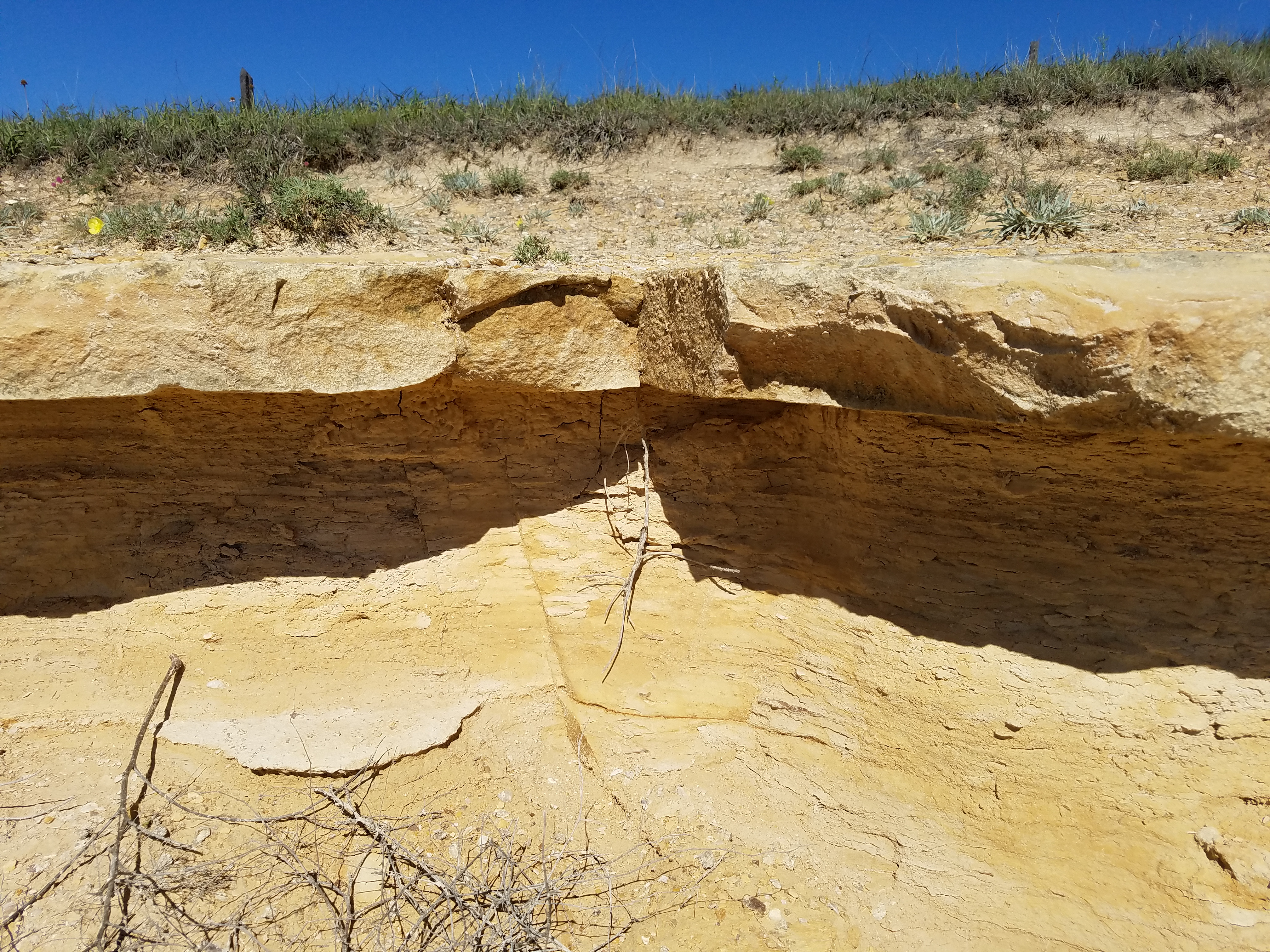 Fairport Chalk